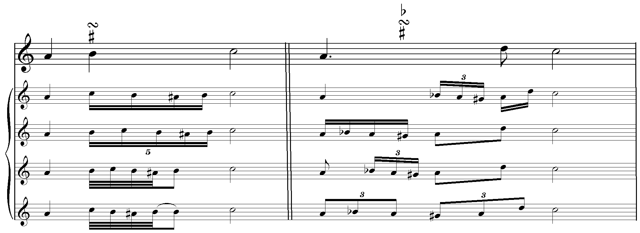 turn (musical ornament), dubbelslag